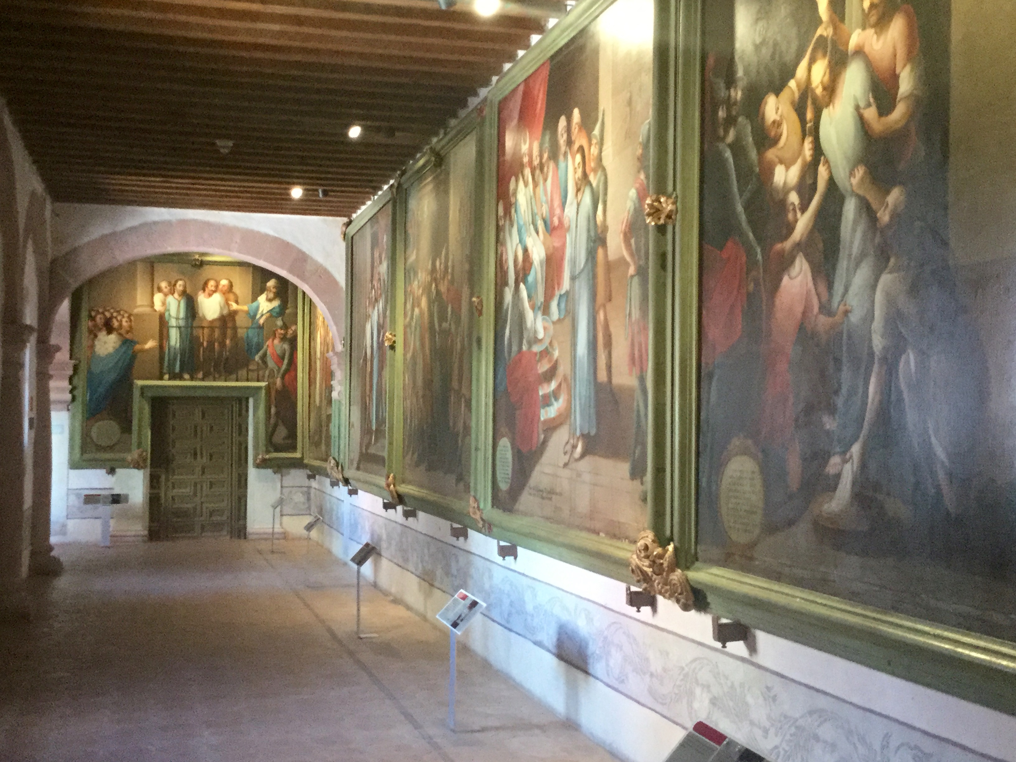 Puerta de las celdas al fondo